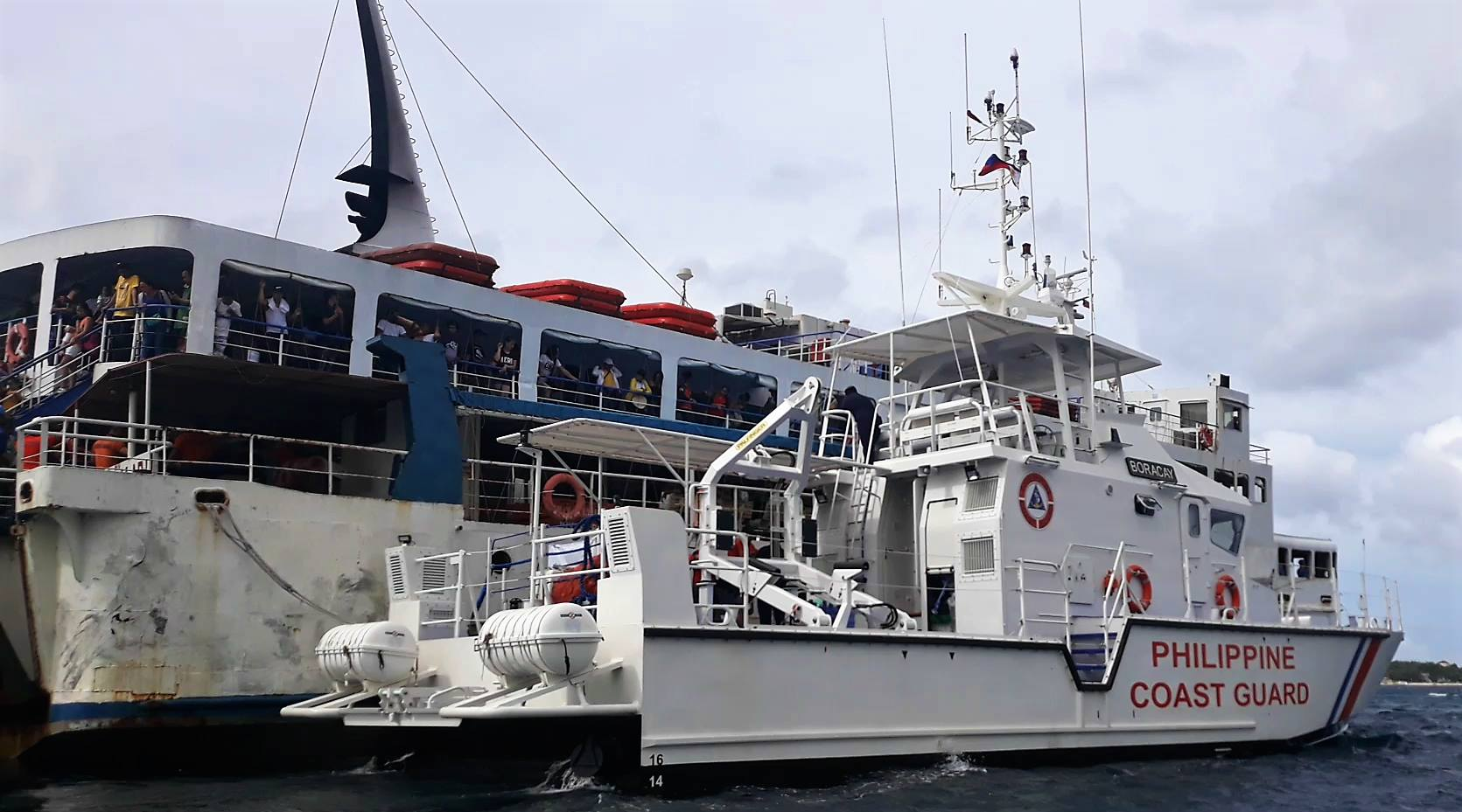 Owned by Philippine Coast Guard and it is public domain. BRP Boracay (FPB 2401) and the rest of the PCG rescues 142 passengers due to engine trouble on Aklan province.